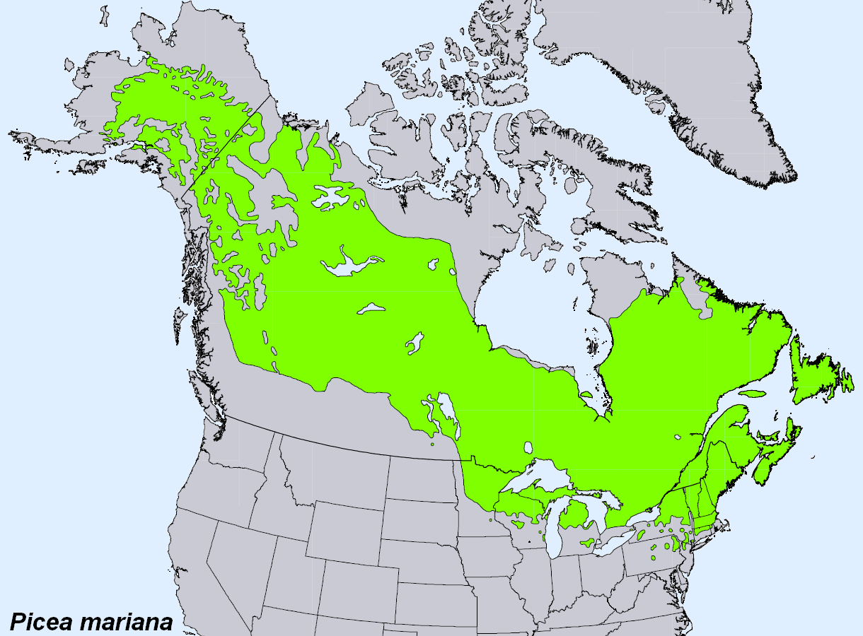 Range map of black spruce (Picea mariana)